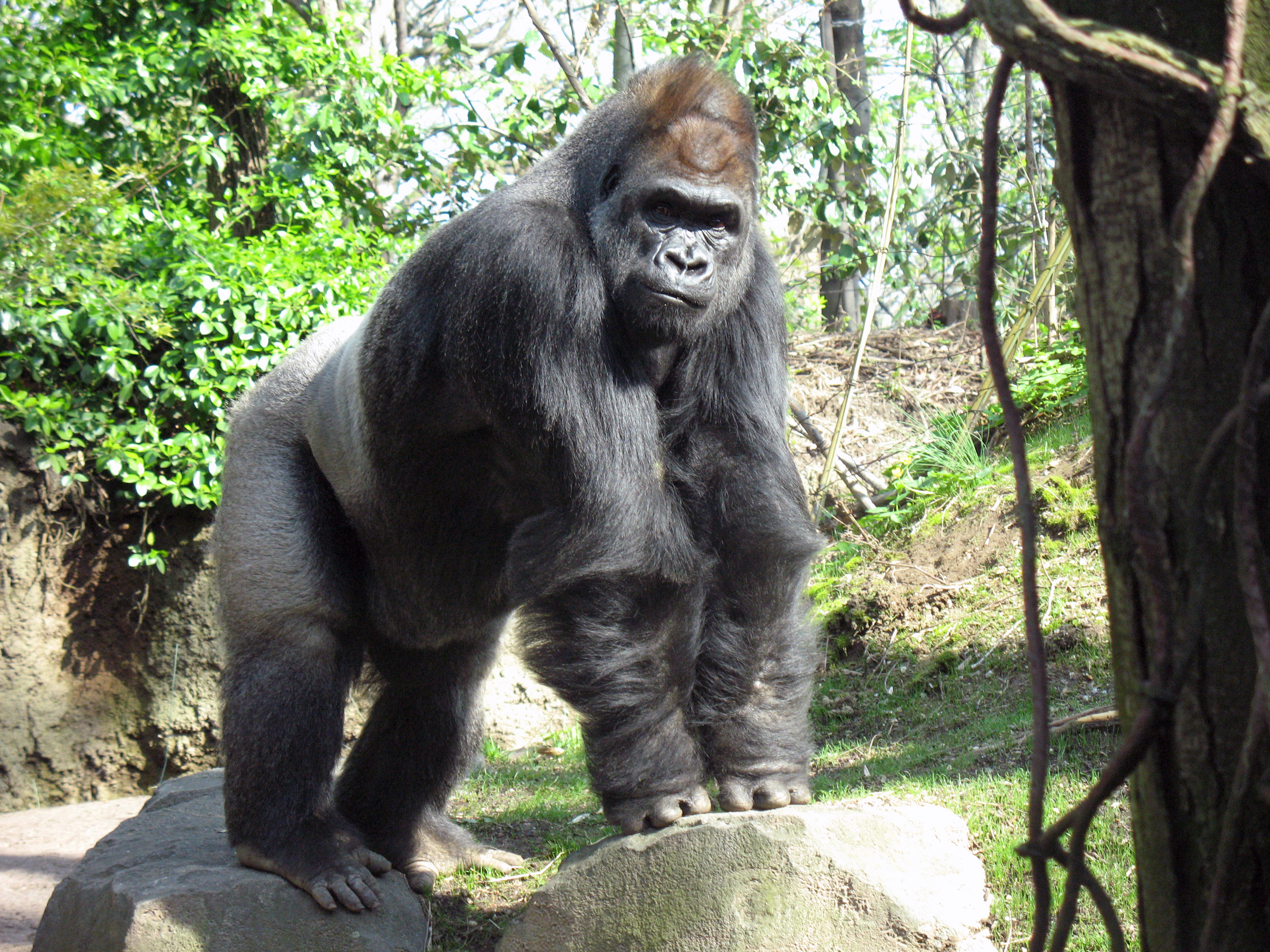 Gorilla at the Bronx Zoo, New York, N.Y., USA